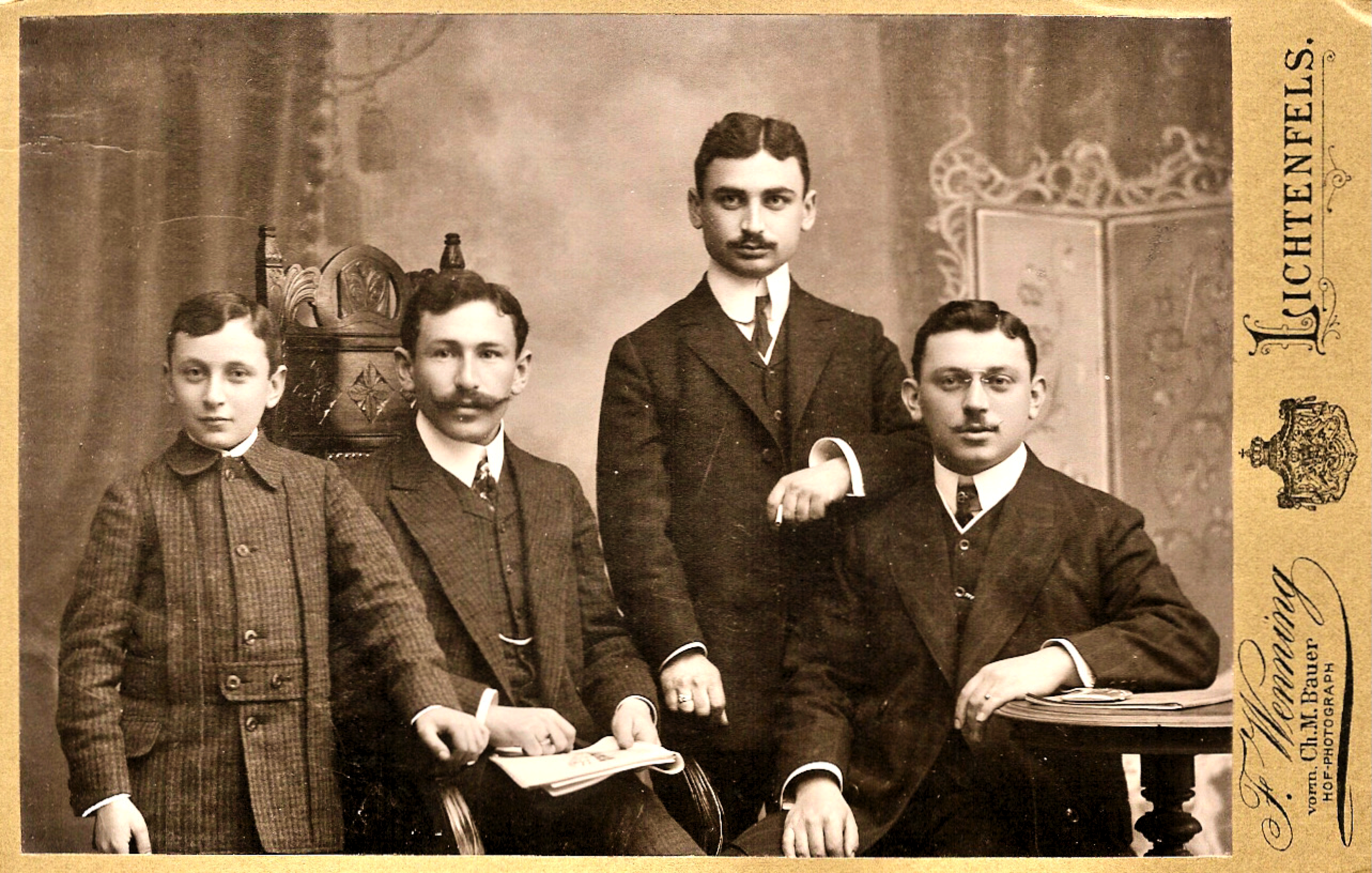 From the left: The brothers Ludwig (1893–1964), Otto (1885–1933), Hugo (1887–1949) und Anton (1886–1950) Bamberger. Otto (2nd from the left) in 1910 became managing director of his family's company which was named D. Bamberger Palmkorb- und Möbelklopfer-Fabrik. It was based in Lichtenfels, Upper Franconia, Bavaria. It was founded in Mitwitz by his grandfather David (1811–1890) and continued in Lichtenfels by his father Philipp (1858–1919) and Philipp's brother Fritz (1862–1942).